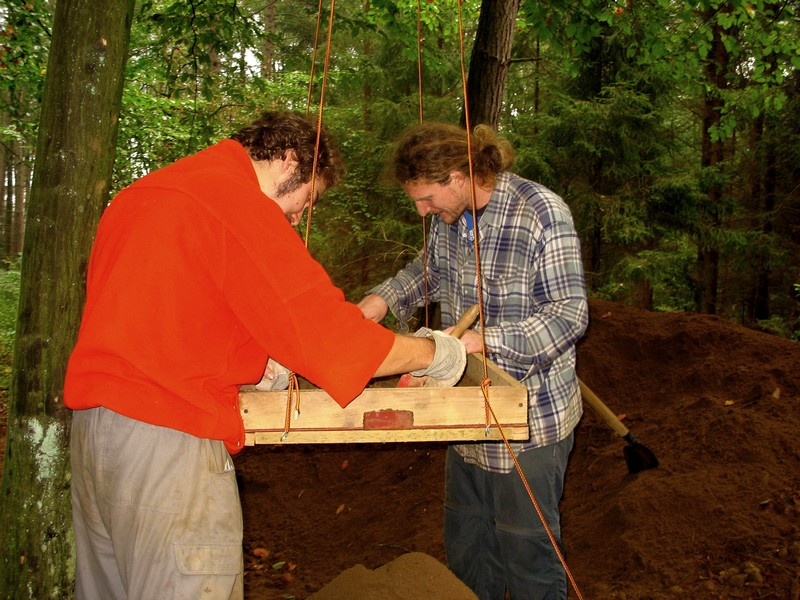 Lubieszewo, position 3, (Tunnehult) - Ducal tumulus. Archaeological investigations - 2006. Lubieszewo, administrative district Gryfice, Poland.